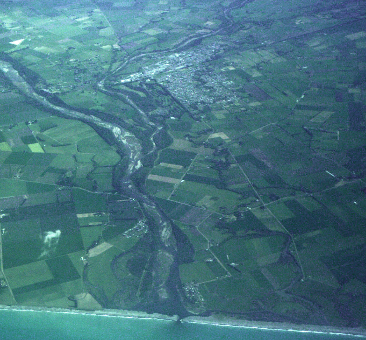 The township of Temuka and the Opihi River. This is located in South Canterbury, South Island, New Zealand. The photo was taken from an Air New Zealand ATR-72 flight from Christchurch to Invercargill.